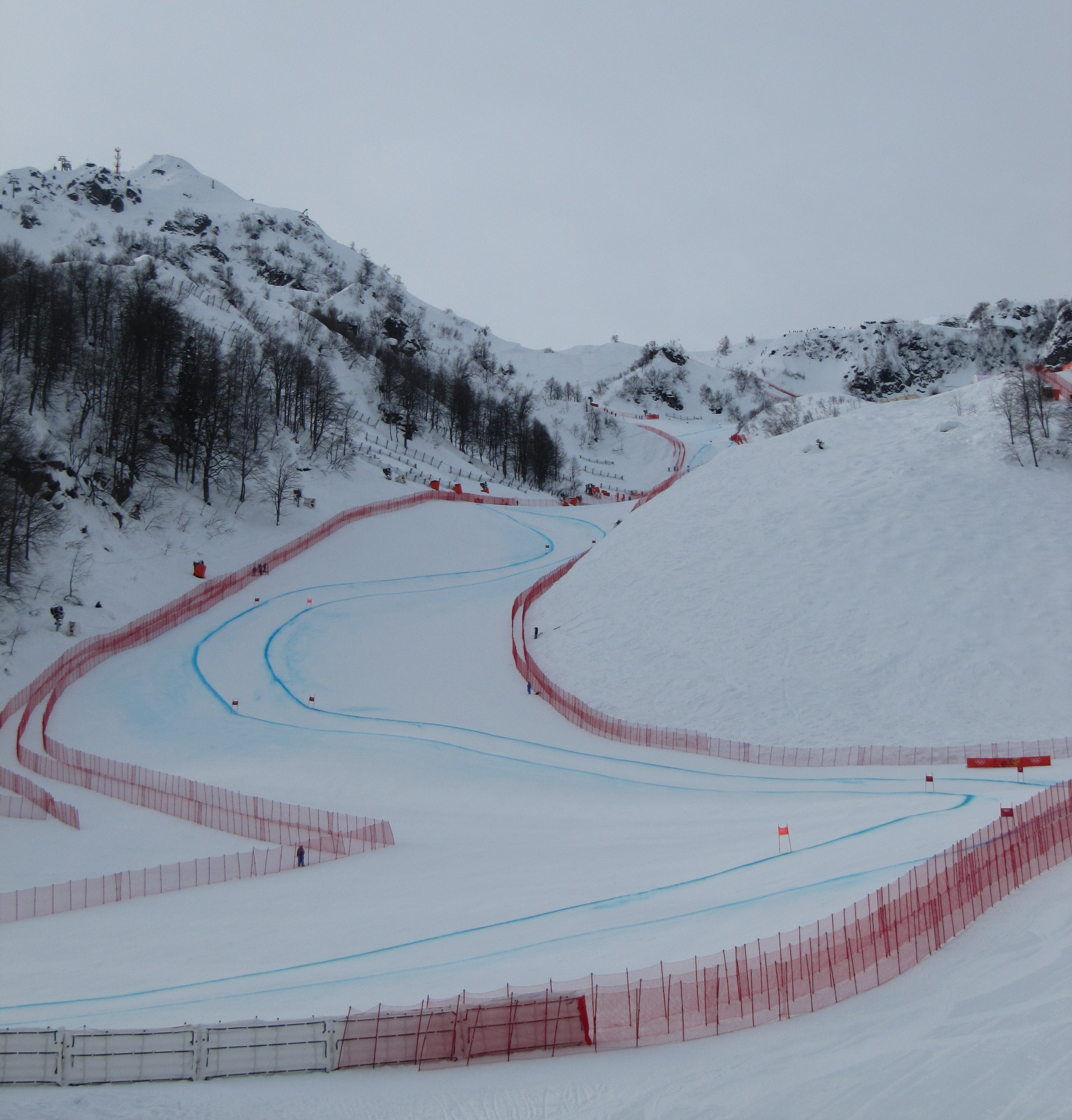 Route men's downhill at the ski alpine resort Rosa Khutor. 2014 Winter Olympics